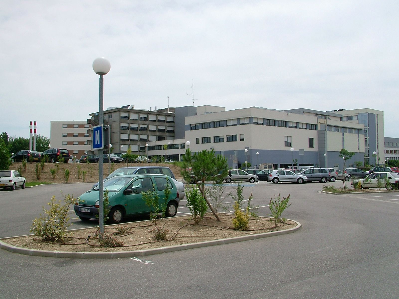 France, lot-et-Garonne (47), Agen. Hospital in Agen